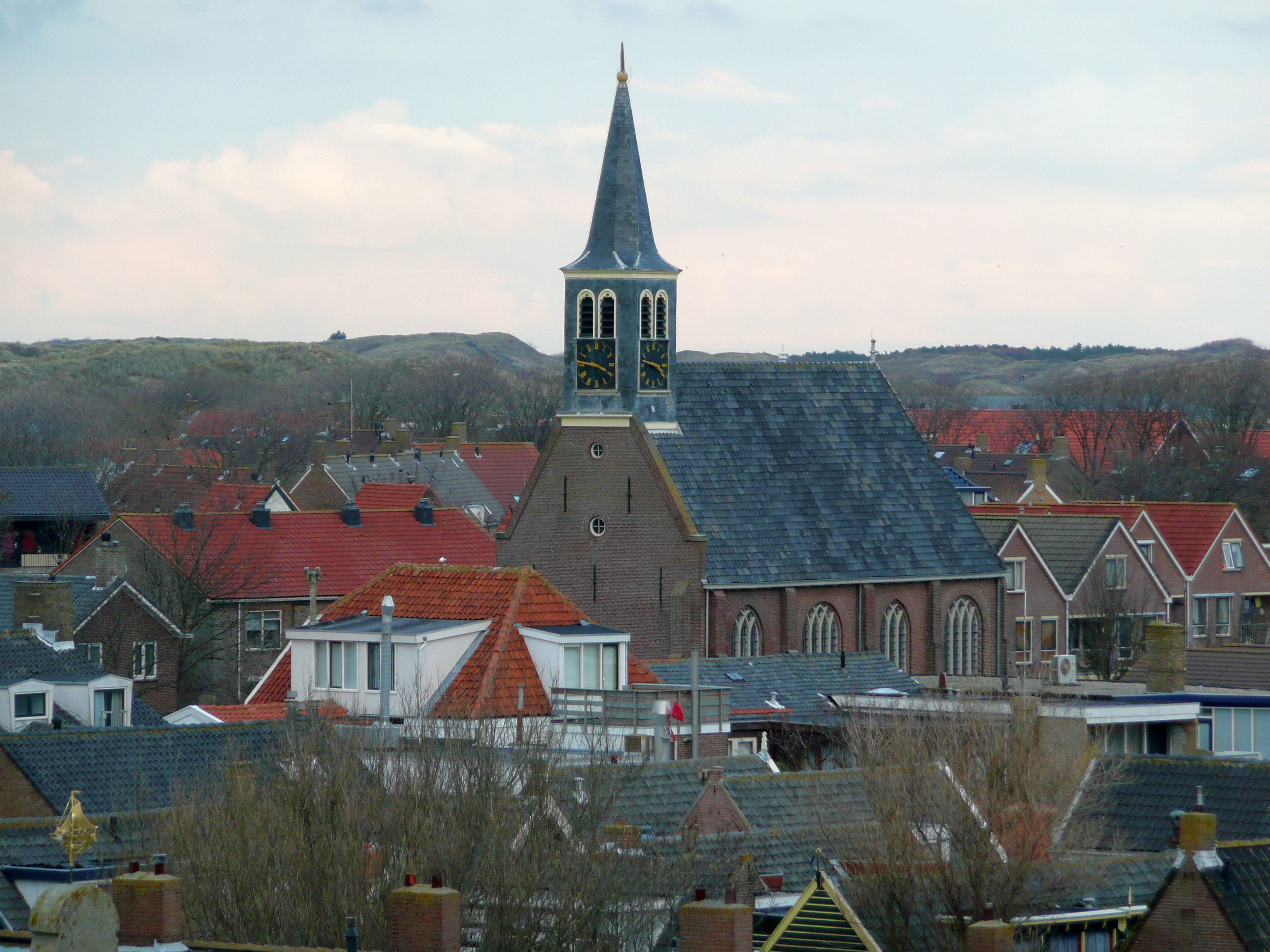 Egmond aan Zee, Netherlands - Church